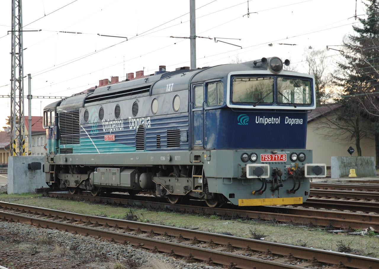 Locomotive 753.717 of Unipetrol Doprava railway operator, station Petrovice u Karviné, Czech Republic